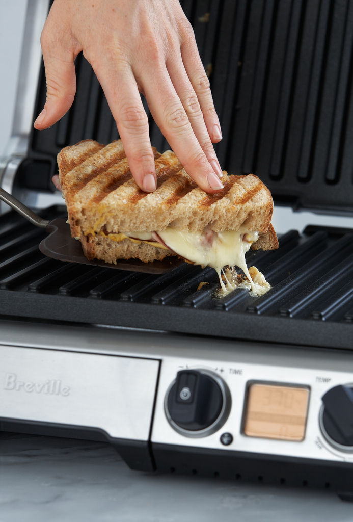 Soup and Sandwich 3of12 BGR820XL